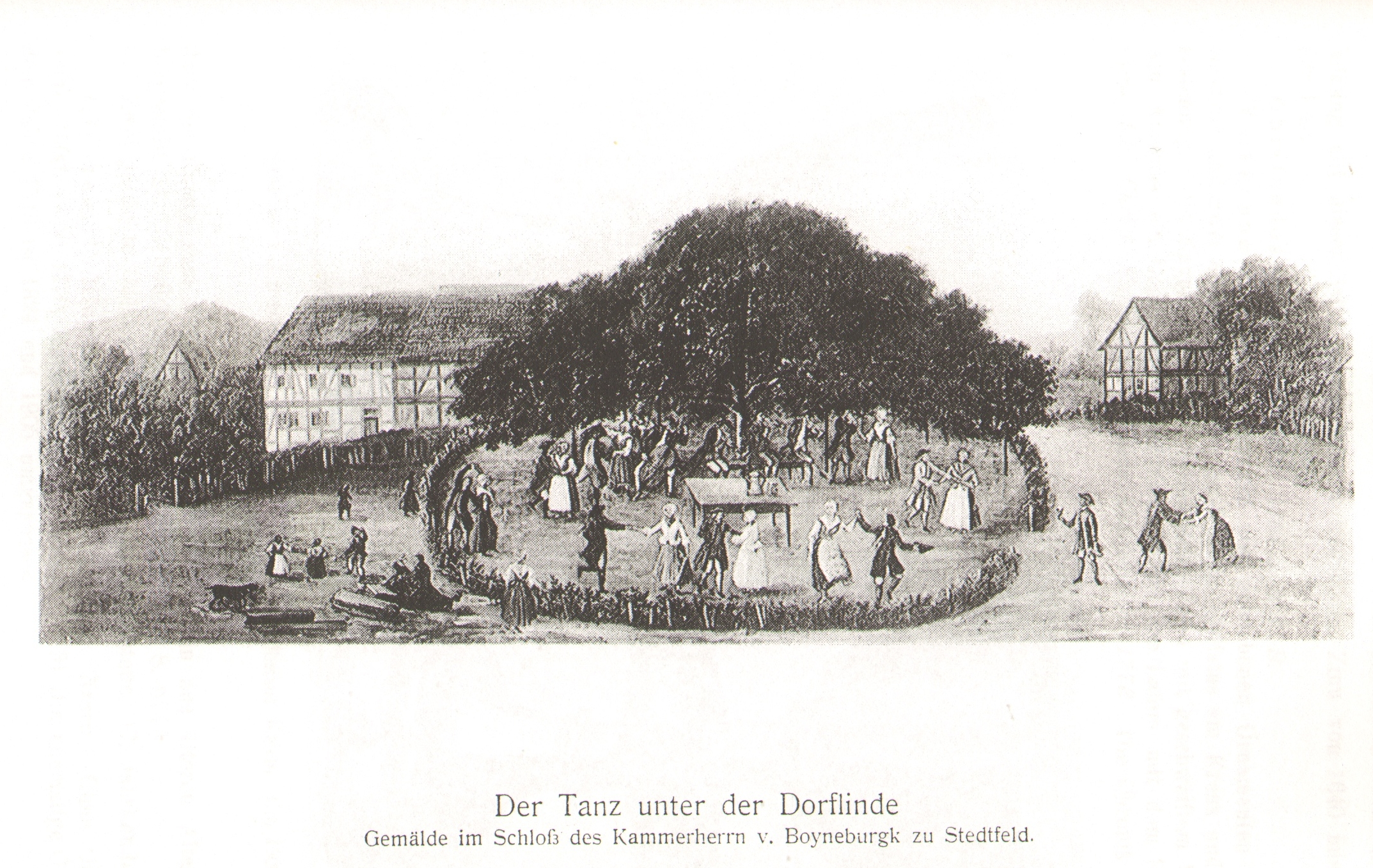 Copy of an painted artwork in the Boyneburgk Castle (Eisenach, Stedtfeldt) - showing a 18th century dancing scene in the village.